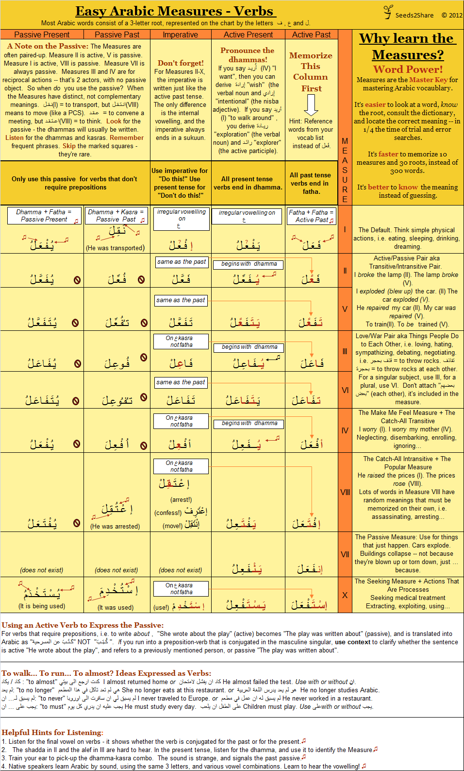 Chart explaining Arabic verbs in plain English.